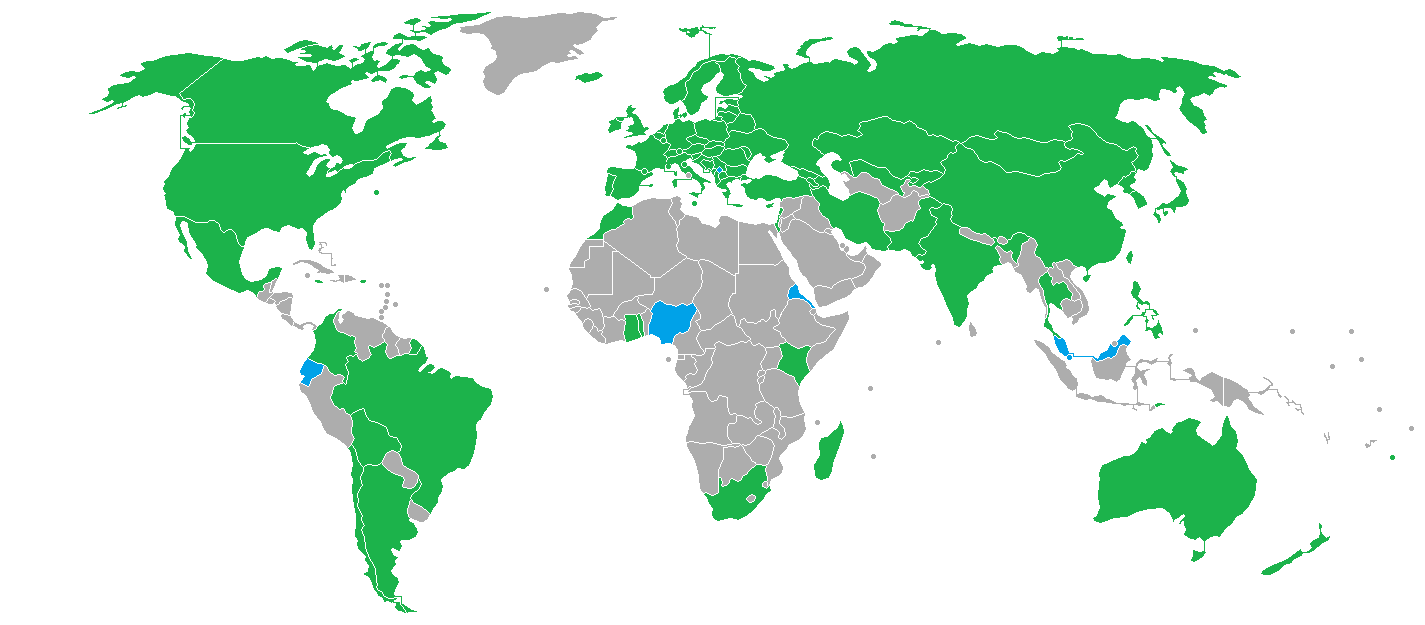 2018 Pyeongchang Winter Olympics Participants map.